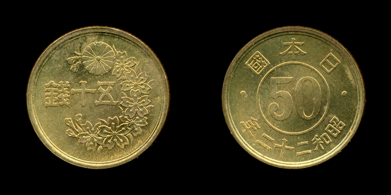 50sen-S22